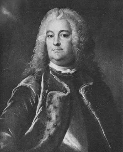 Portrait of Theodor Ankarcrona (1687-1750)